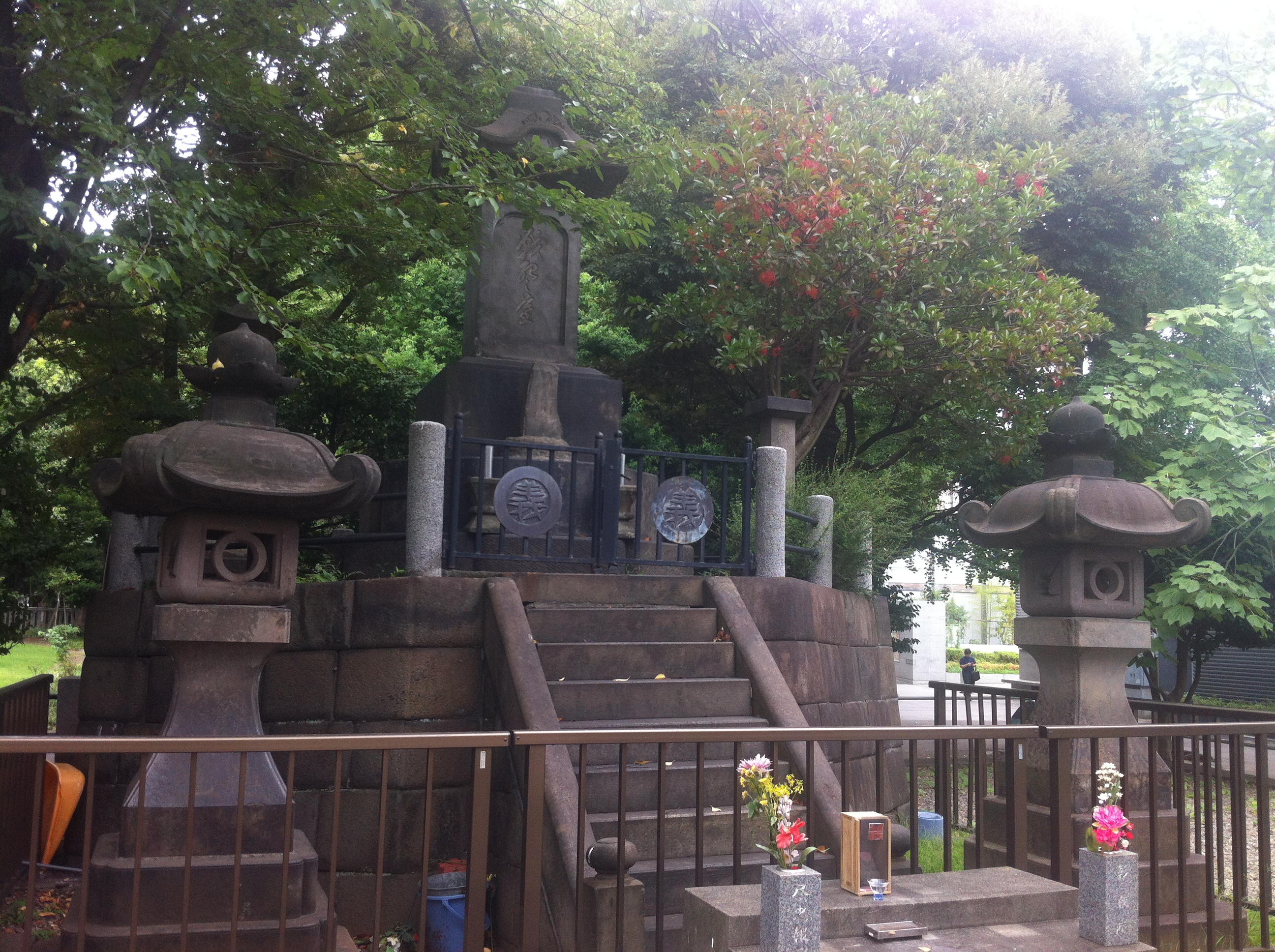 彰義隊の墓 (上野) Grave of Shōgitai soldiers (Ueno)